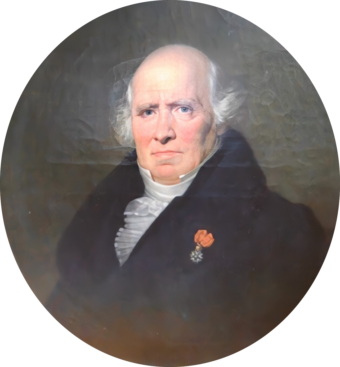 Pierre Simon Girard